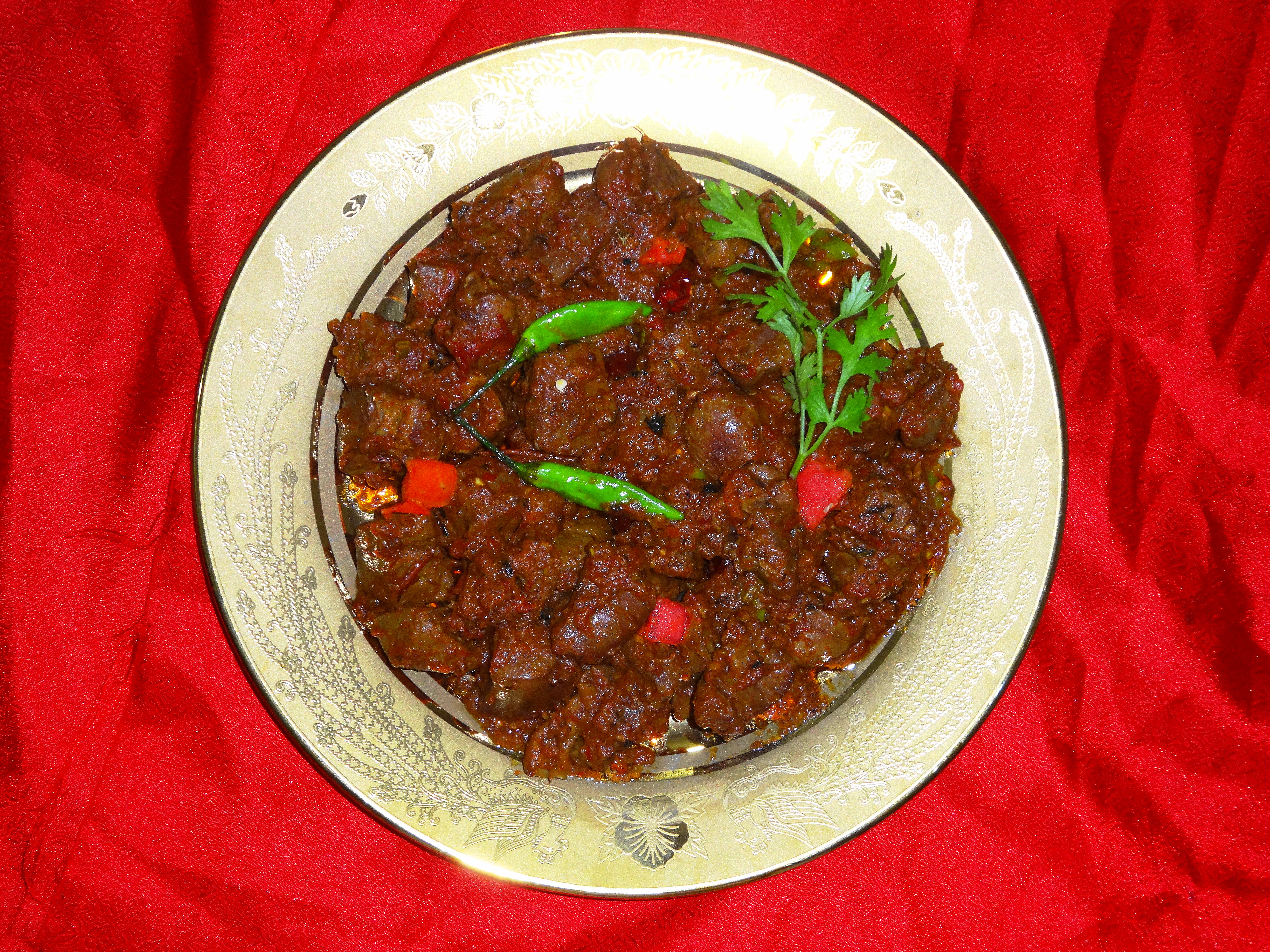 کٹاکٹ